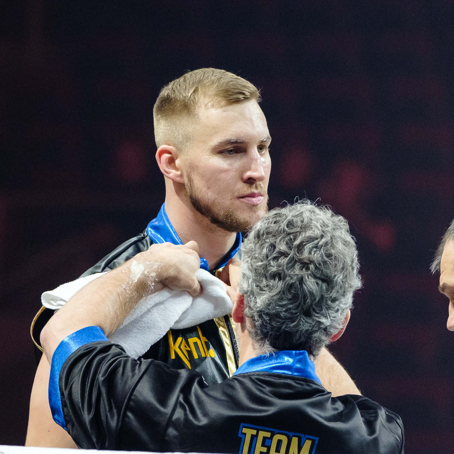 Otto Wallin, Swedish boxer